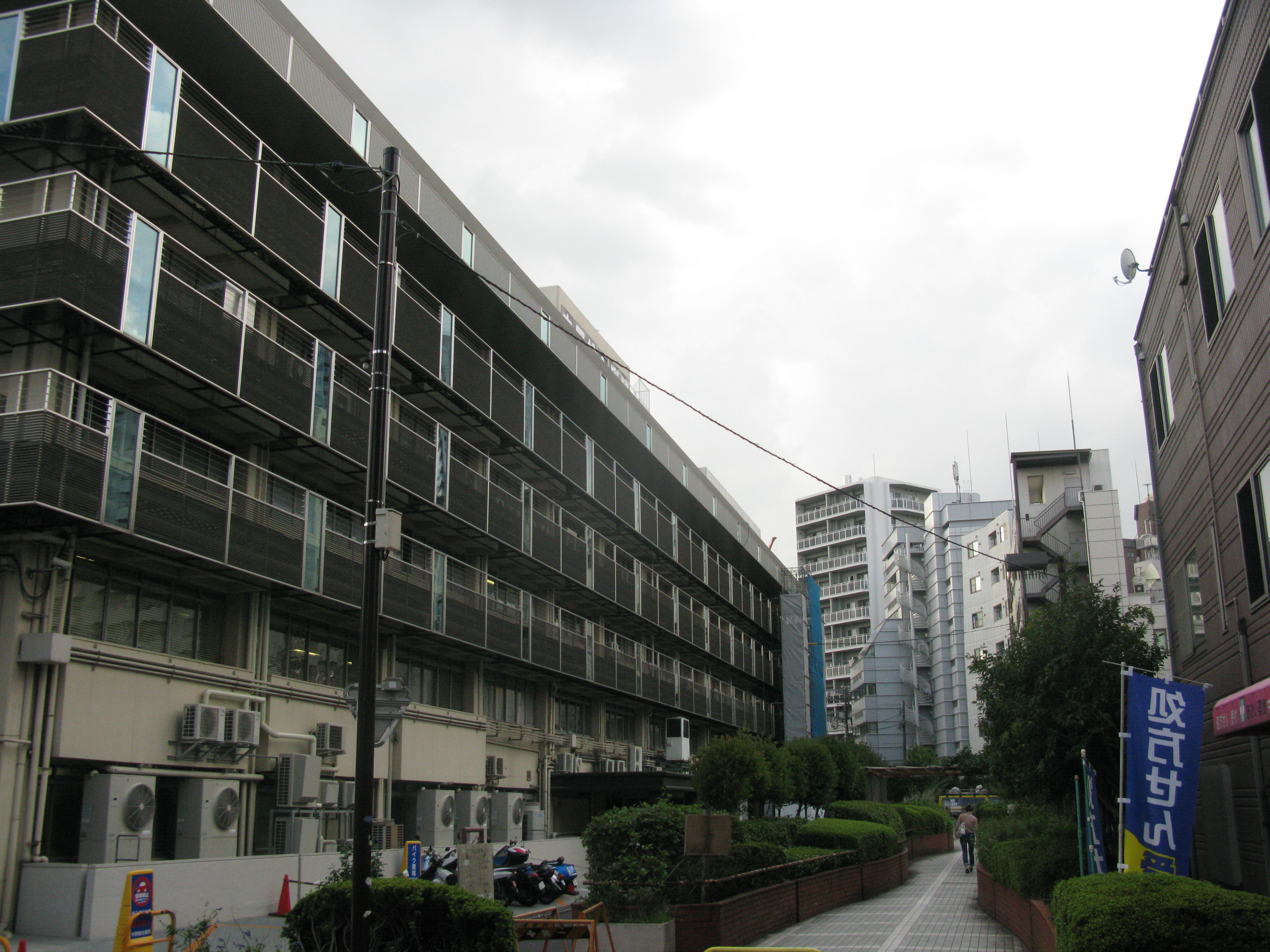 Momozonogawa-ryokudō(Chūō 4-chome,Nakano-ku）